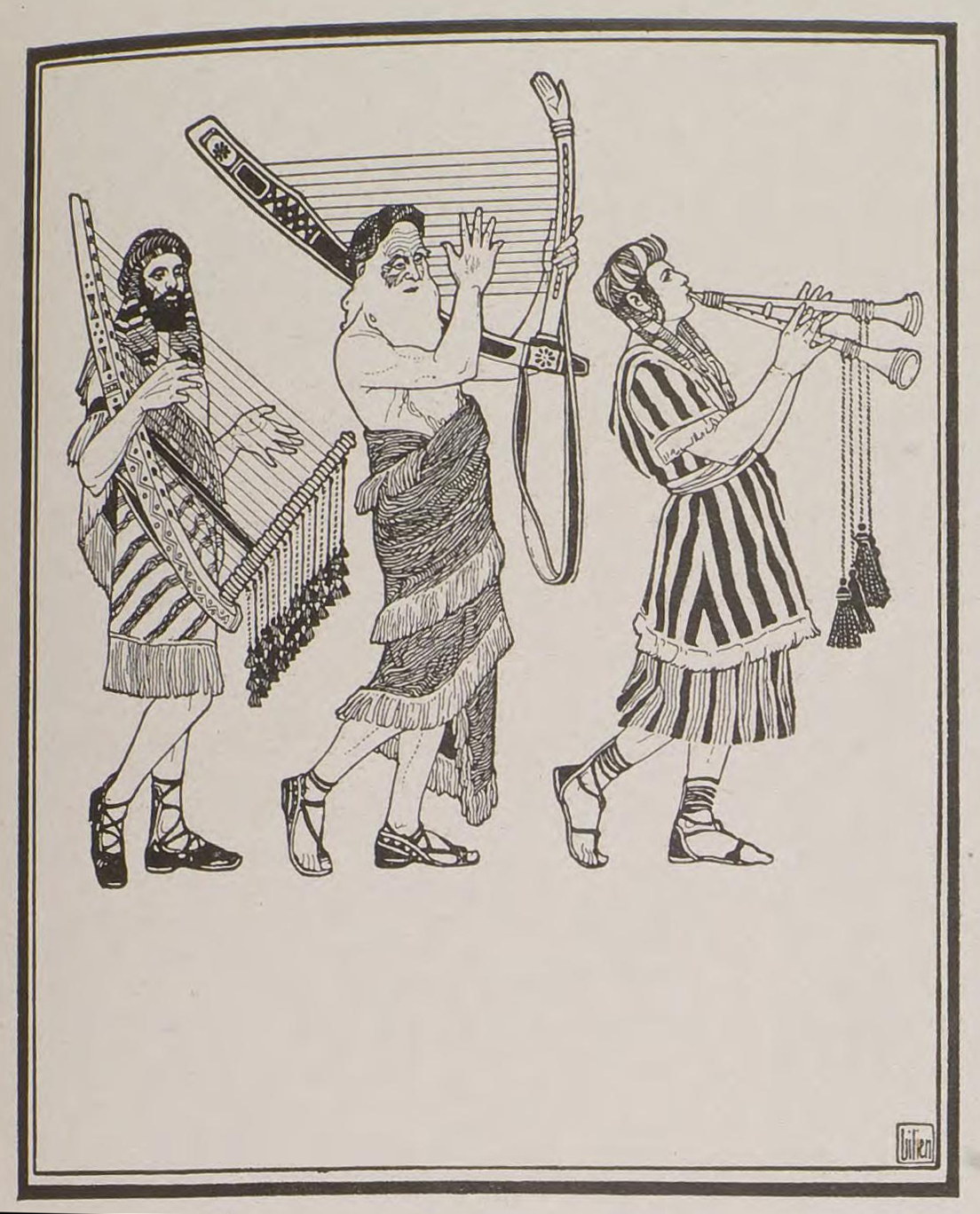 Psalm 34. The musical instruments are drawn after the rich archaeological material; also the way of holding and playing them is reproduced from the sources.